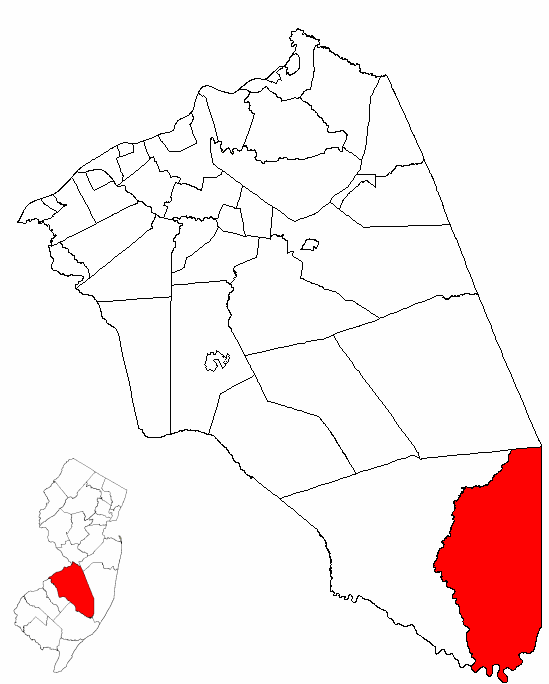 Map of Burlington County highlighting Bass River Township